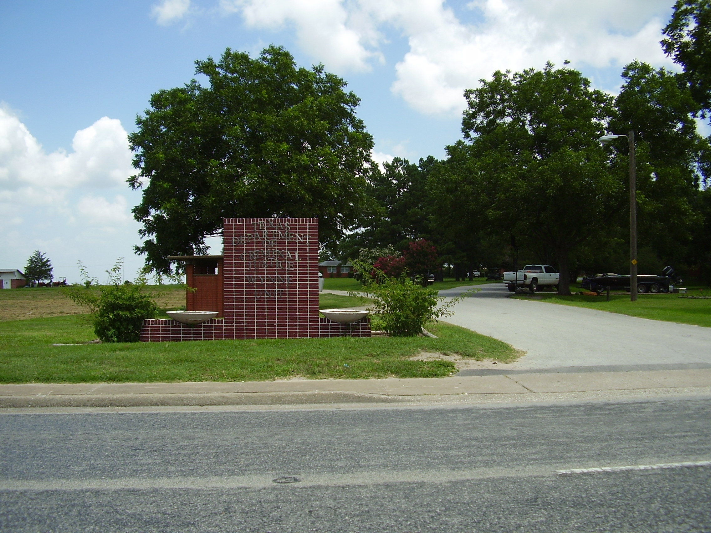 John M. Wynne Unit